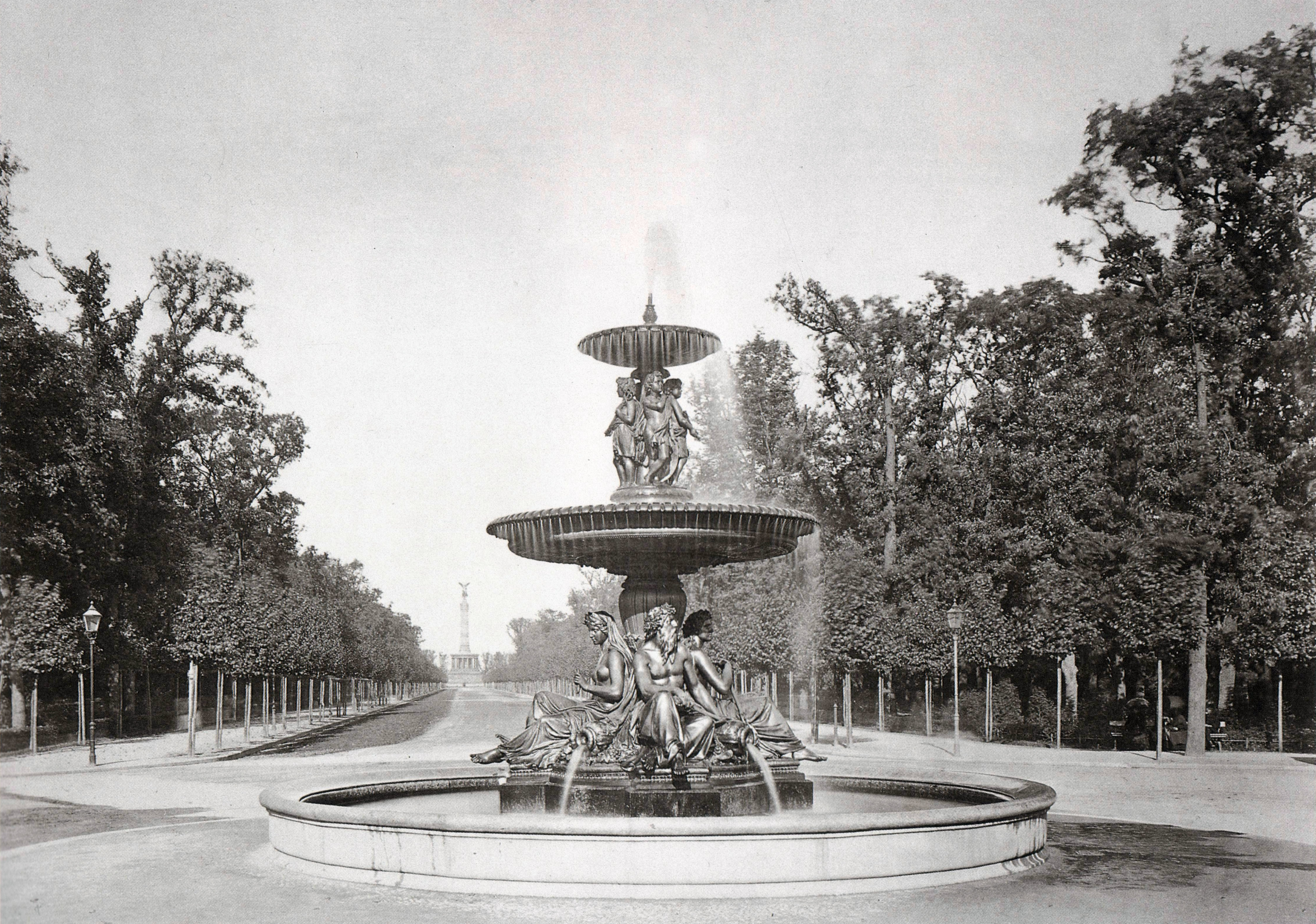 The Wrangelbrunnen (Wrangel fountain) at its old place, Kemperplatz, viewing north through Siegesallee at the Berlin Victory Column, which is now located on Großer Stern place. The fountain can now be found at the corner Urbanstraße and Grimmstraße in Kreuzberg.